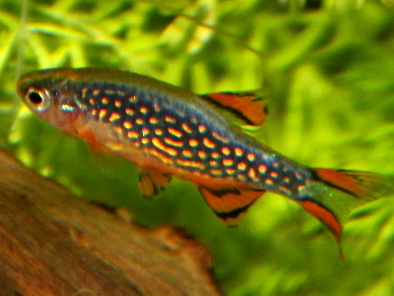 Danio margaritatus male